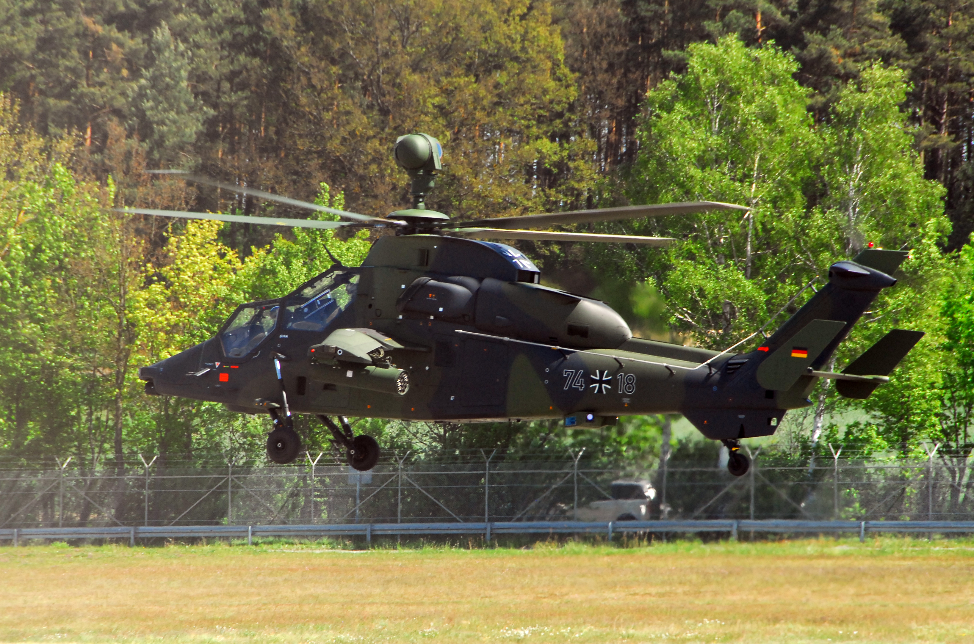 One of Germany's new Eurocopter Tiger attack helicopter hovers over the runway at Grafenwoehr Army Airfield as it awaits clearance to depart.